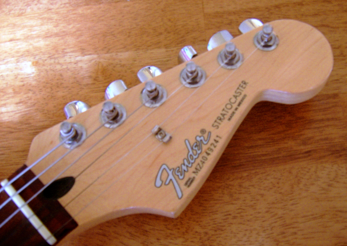 An alternative. This is a Fender Stratocaster headstock. Appears to be made in Mexico.